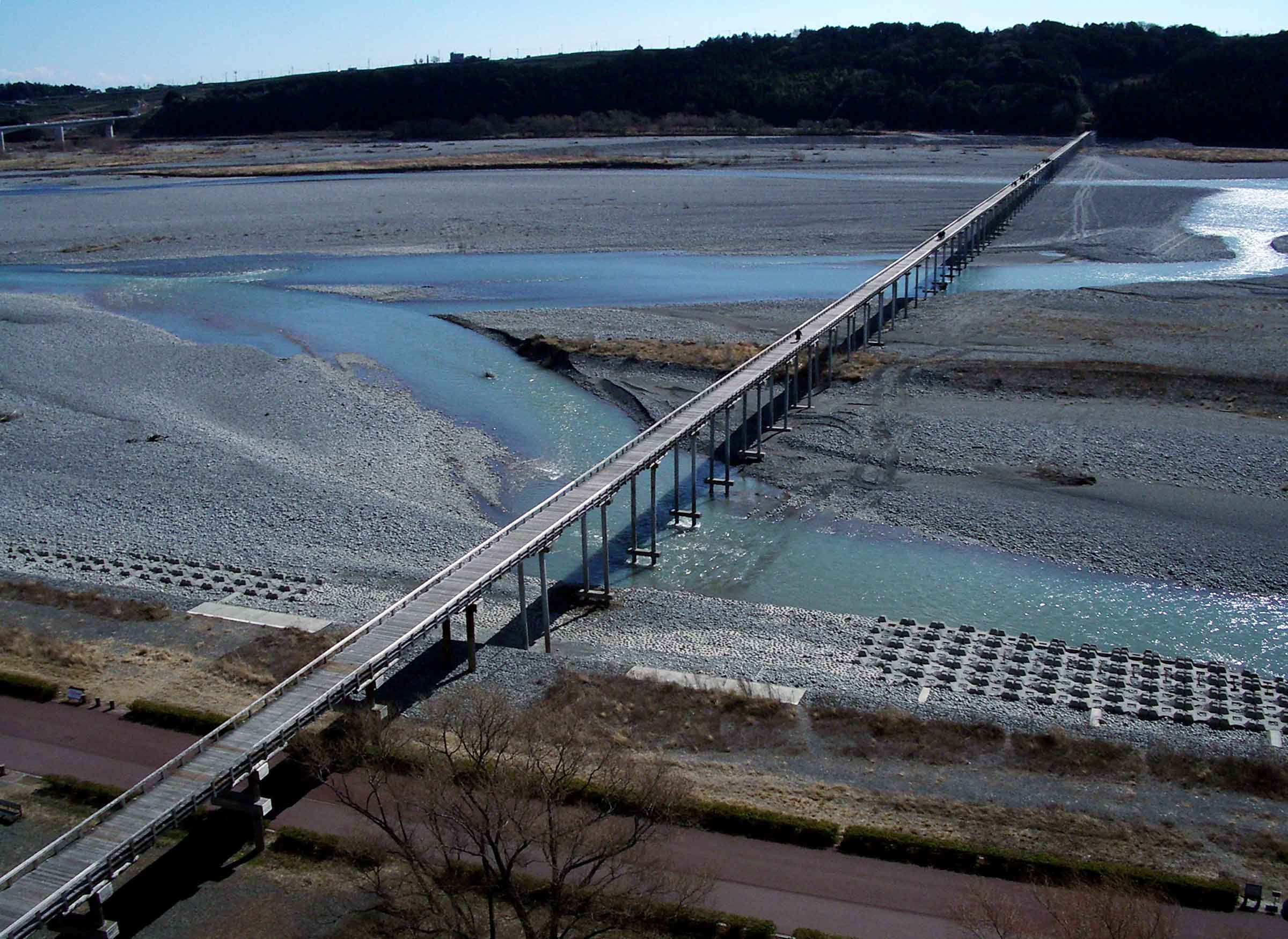 Horai Bridge in Shimada, Shizuoka prefecture, Japan.